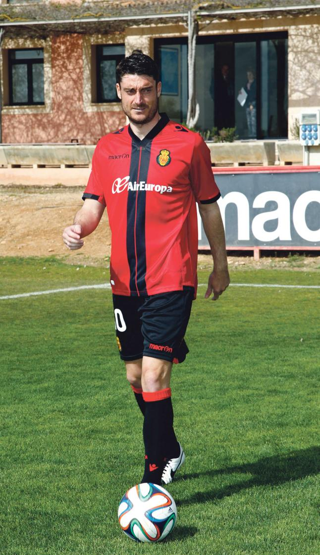 Riera in RCD Mallorca